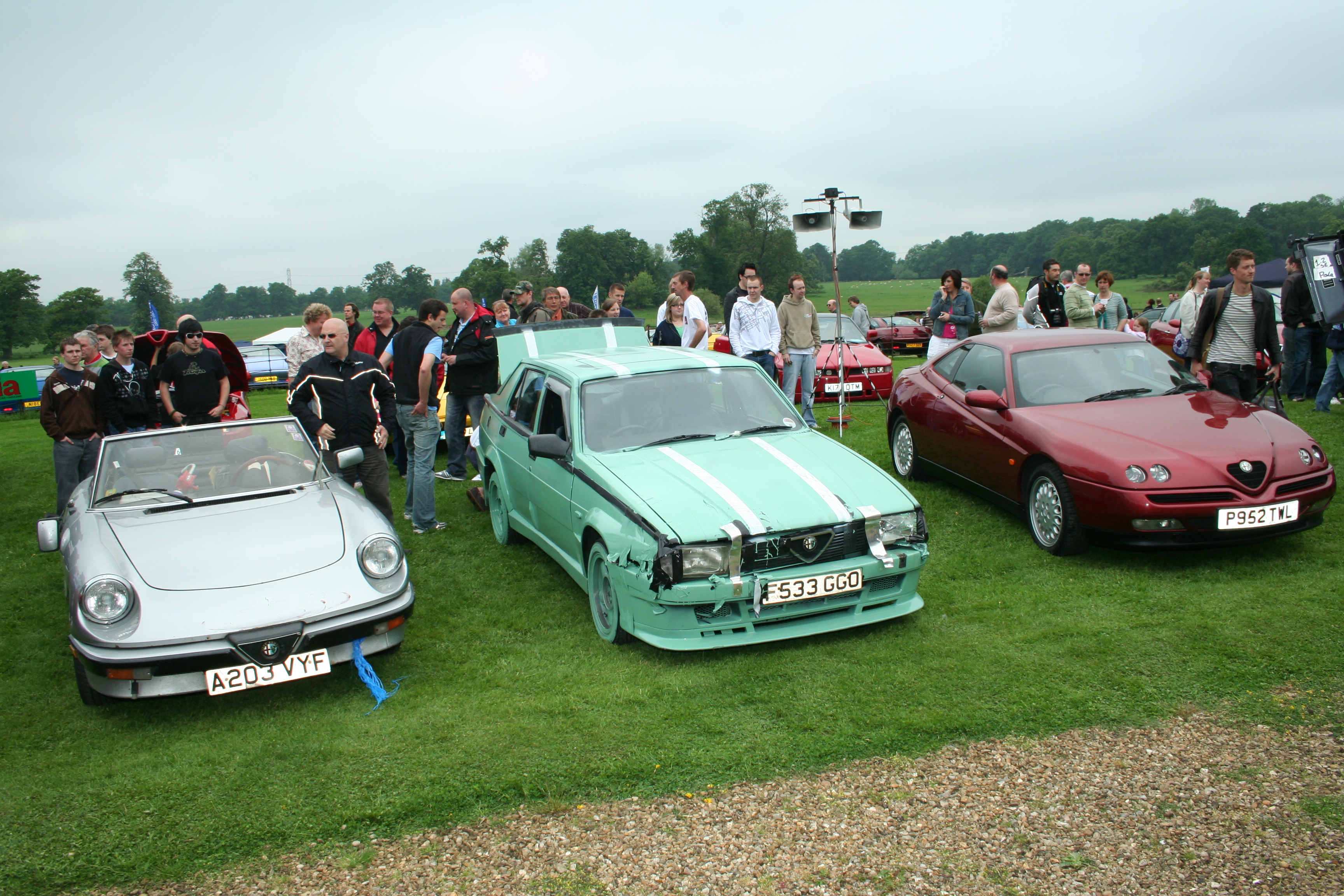 The three cars from Top Gear's "The Top Gear Can You Buy An Alfa Romeo For £1000 Or Less Without It Completely Ruining Your Life All The Time Challenge. From left to right, Richard Hammond's Alfa Romeo Spider, Jeremy Clarkson's Alfa Romeo 75 and James May's Alfa Romeo GTV. The photo was taken at the concourse where the challenge ended.